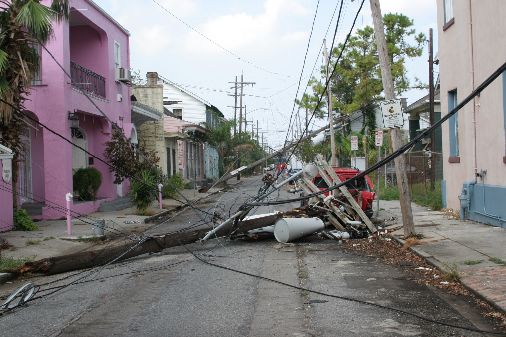 Driving through New Orleans after Hurricane Katrina - Downed Pole and Wires